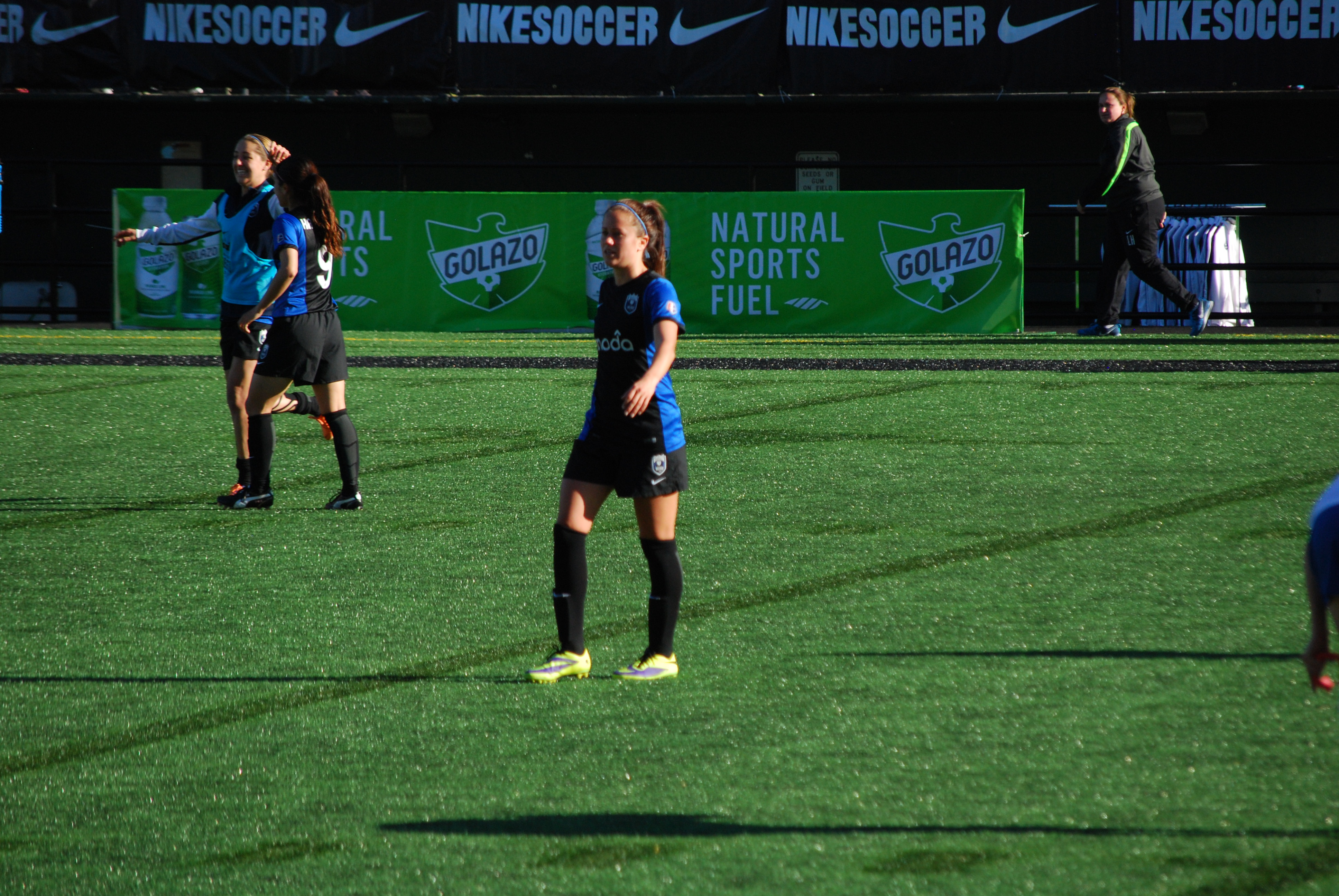 Seattle Reign FC vs Boston Breakers, April 13, 2014 at Memorial Stadium in Seattle, Washington